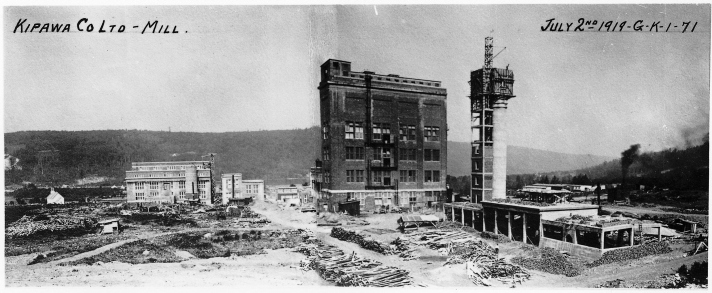 Photograph, Construction of Kipawa Co. Ltd. mill, Quebec, Canada, retouched panorama, copied 1919-20, Anonymous, Silver salts on glass - Gelatin dry plate process - 12 x 20 cm